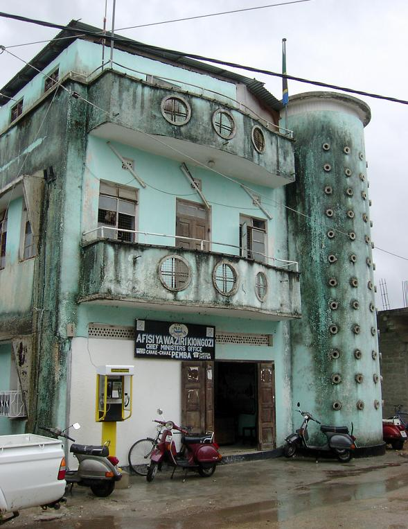 This is the office of the Prime Minister of Zanzibar's Revolutionary Government in Chake-Chake, the 'capital' of Pemba island, Tanzania. His main office is in Zanzibar-town.